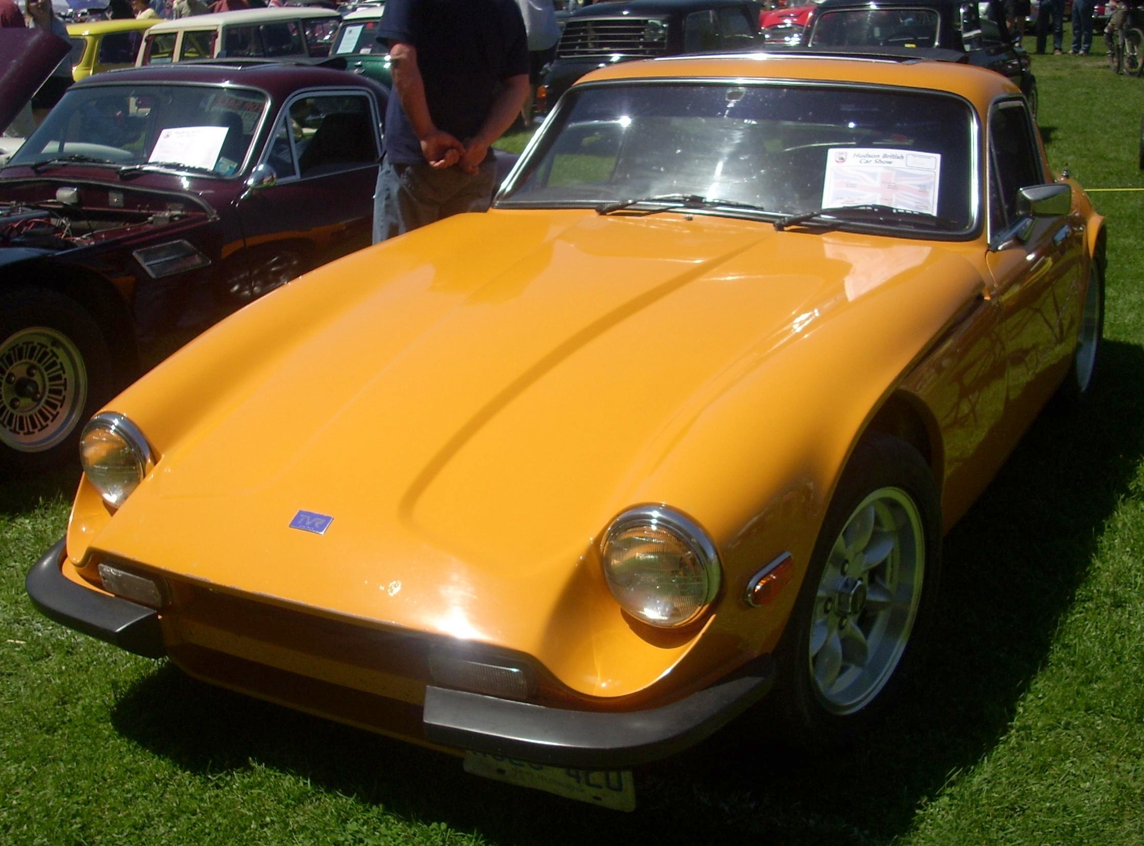 1978 TVR 5000M photographed at the 2008 Hudson Auto Show.